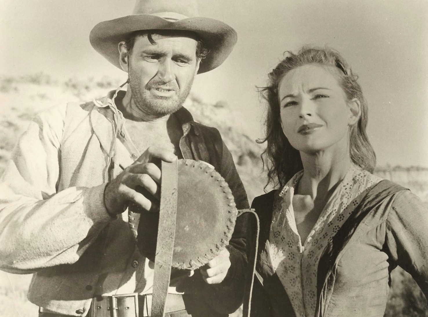 Jeff Morrow and Coleen Gray in Copper Sky (1957) - publicity still (cropped)